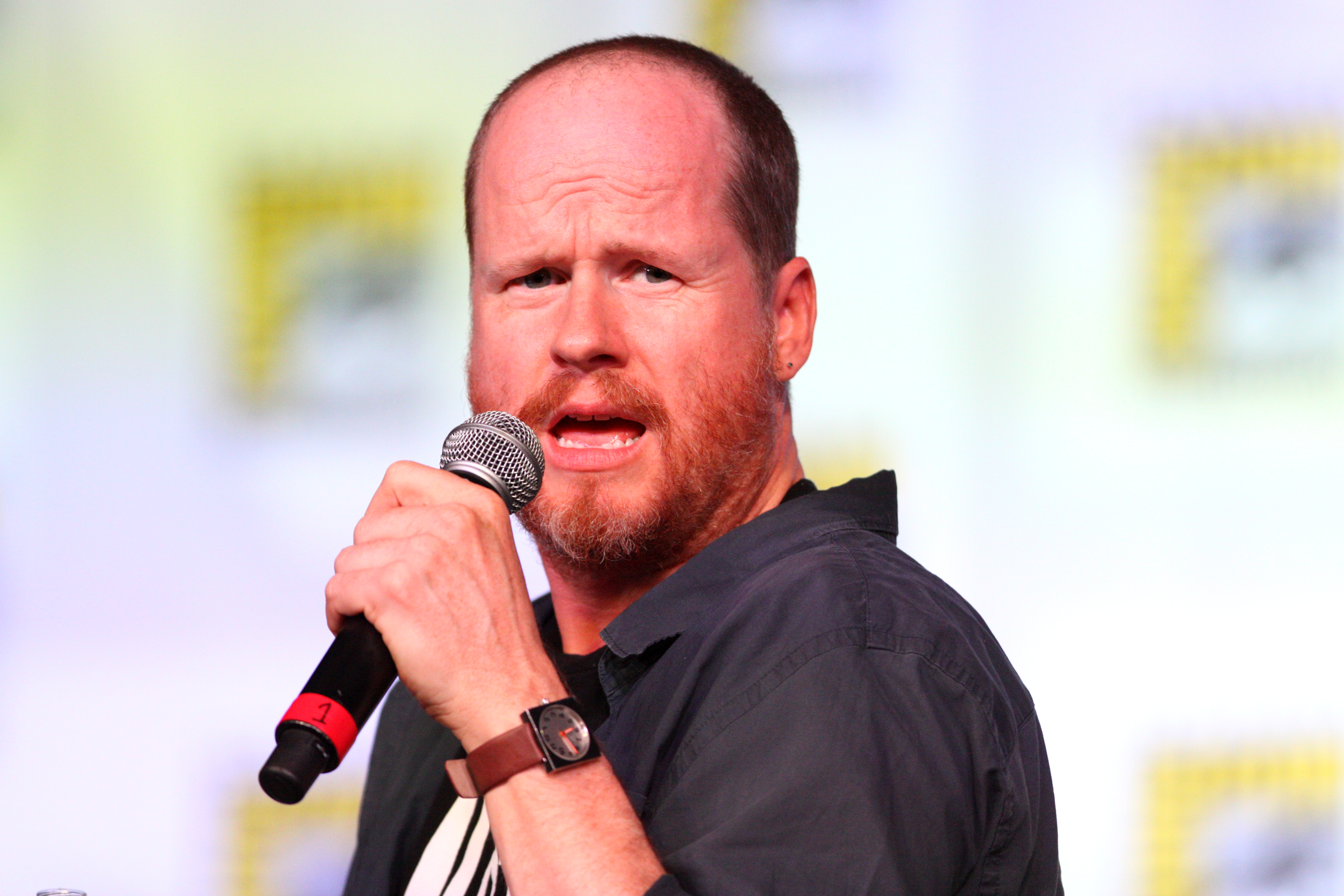 Joss Whedon speaking at the 2012 San Diego Comic-Con International in San Diego, California.